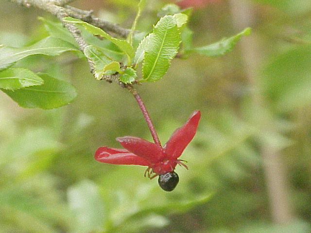 Species: Ochna serrulata Family: Ochnaceae Image No. 2